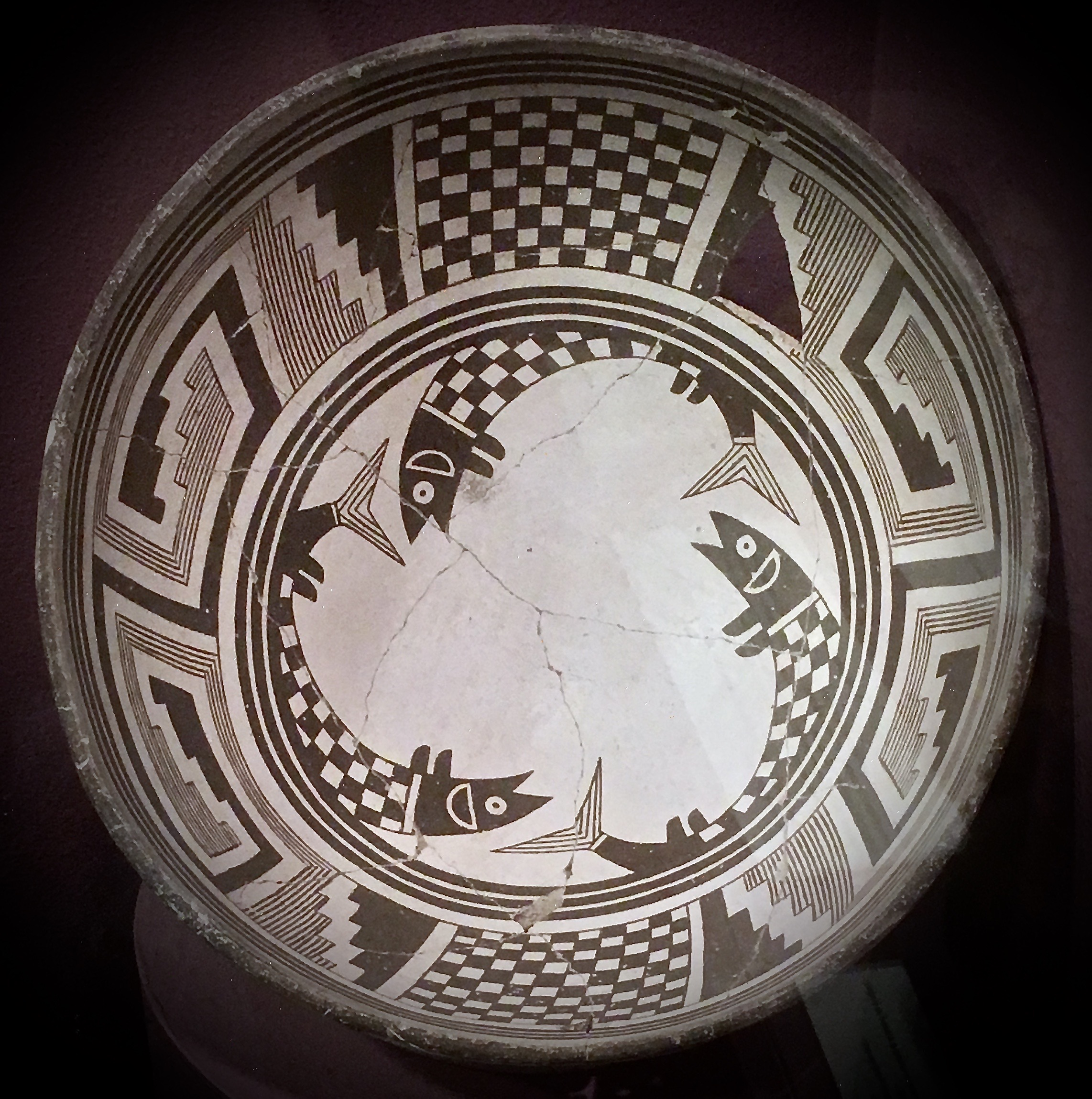 has a fine small collection of prehistoric Indian art on display.